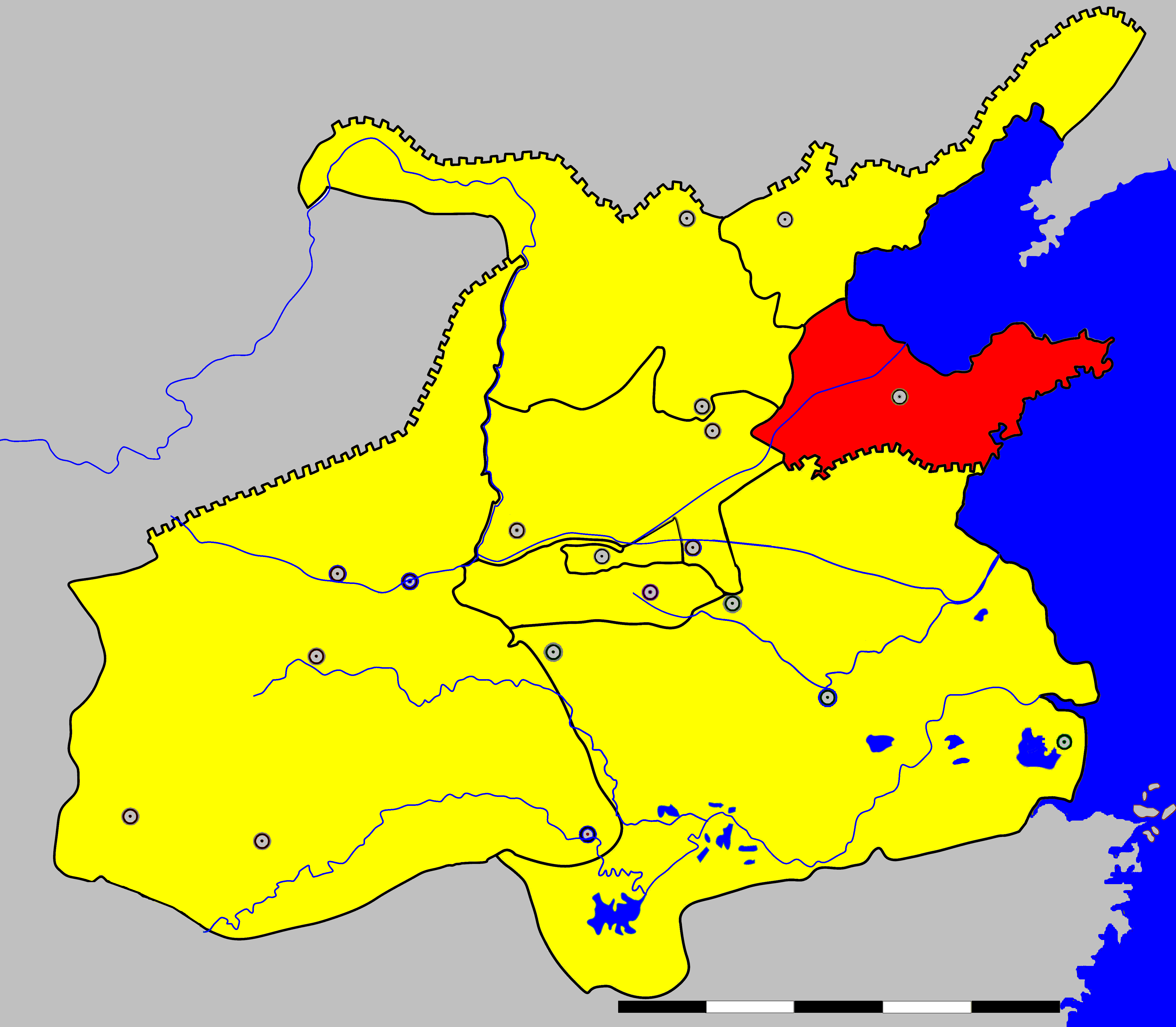 map of the ancient Chinese kingdom of 齊 Qí